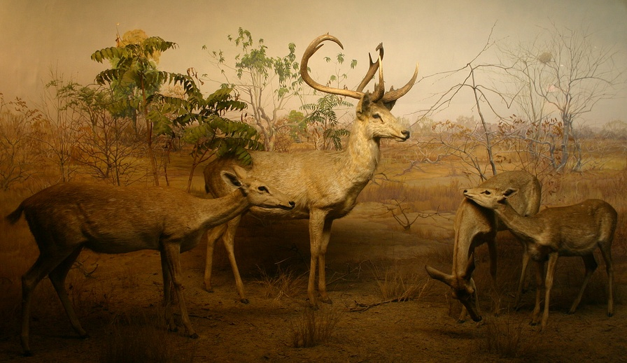 Brow-antlered Deer, Cervus eldi